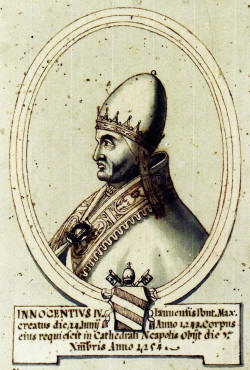 Sketch of Pope Innocent IV by 17th century artist